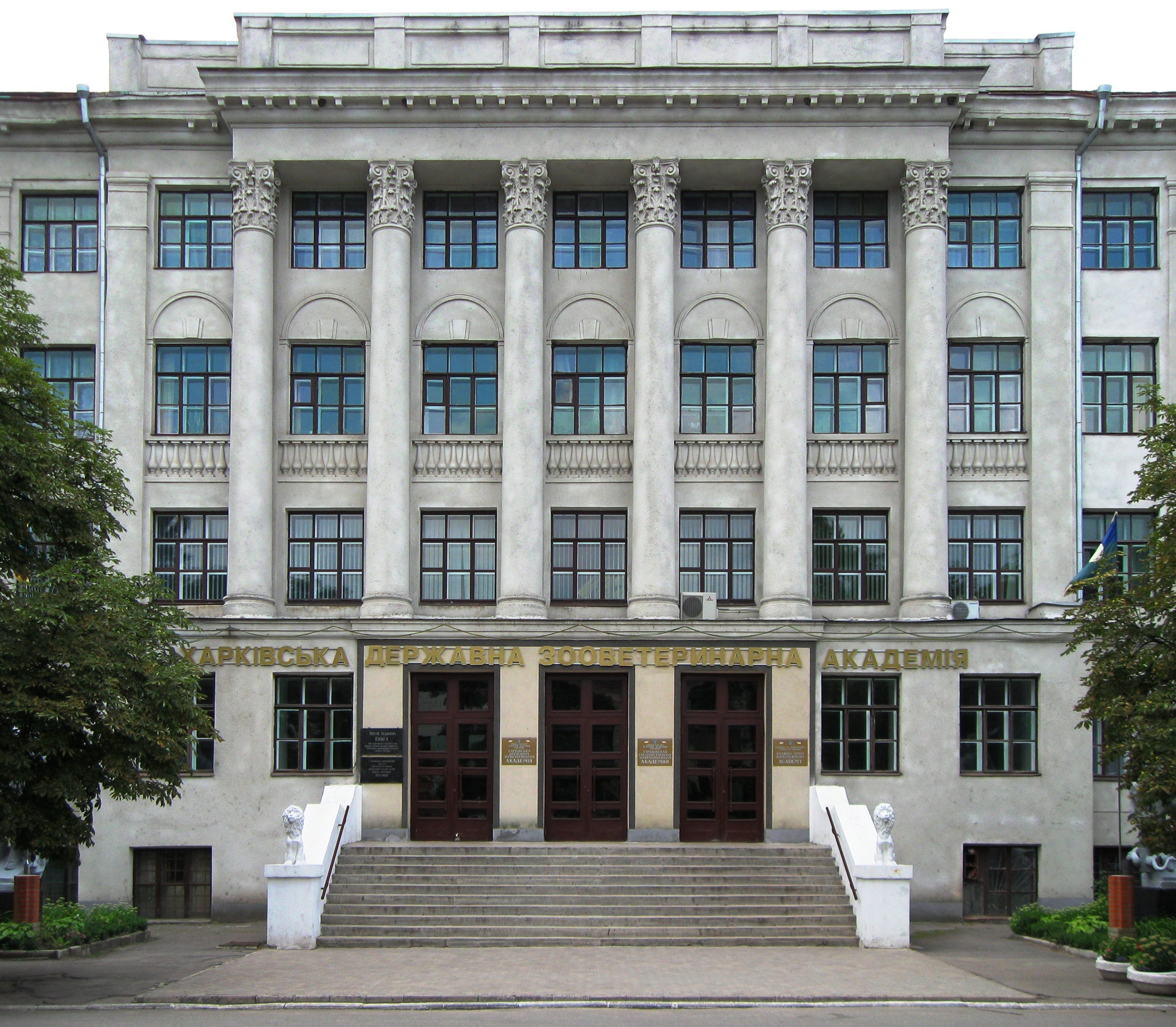 Kharkov State Zoo-Veterinary Academy, Kharkov, Ukraine